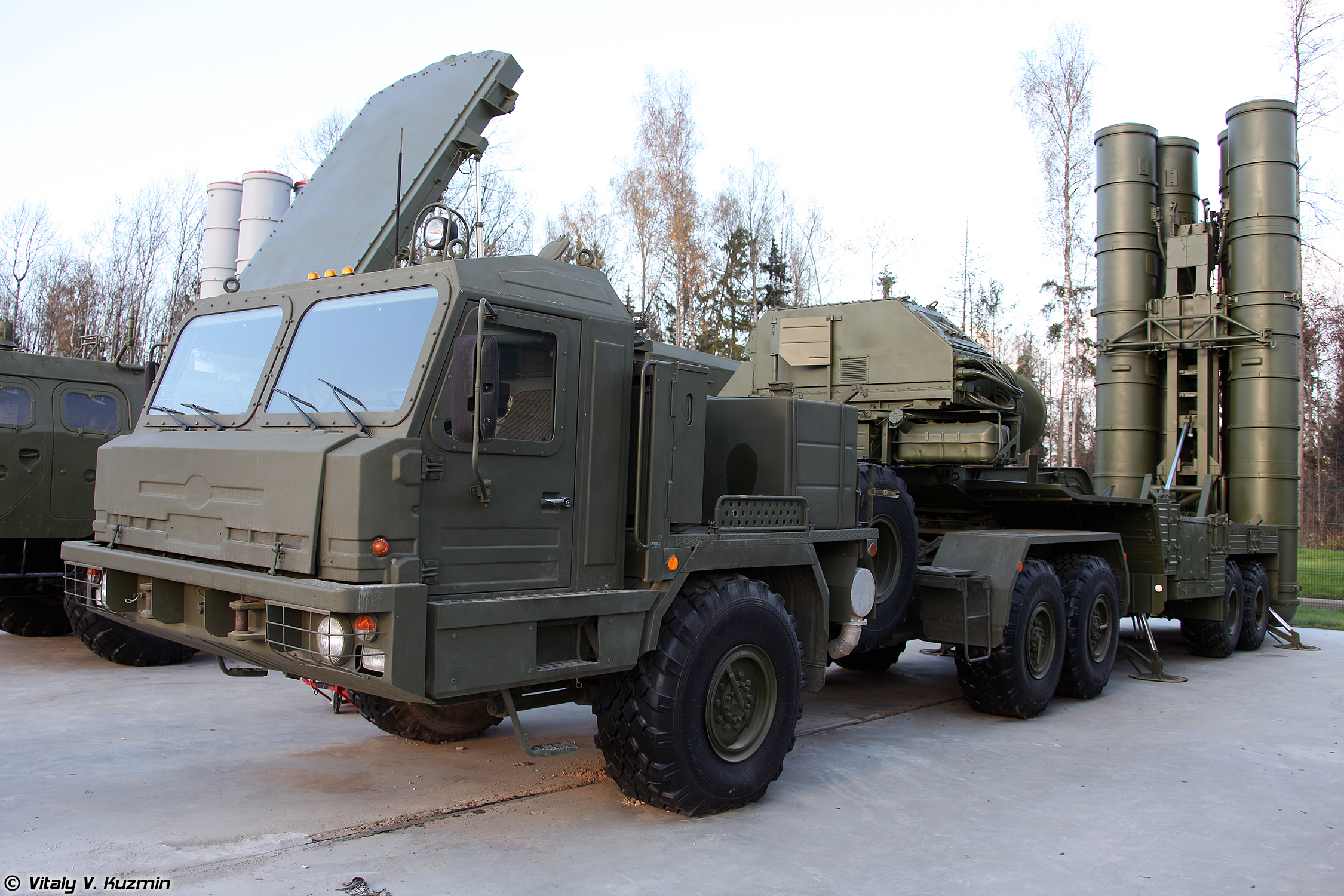 5P85TM TEL for S-400 missile system - Park Patriot